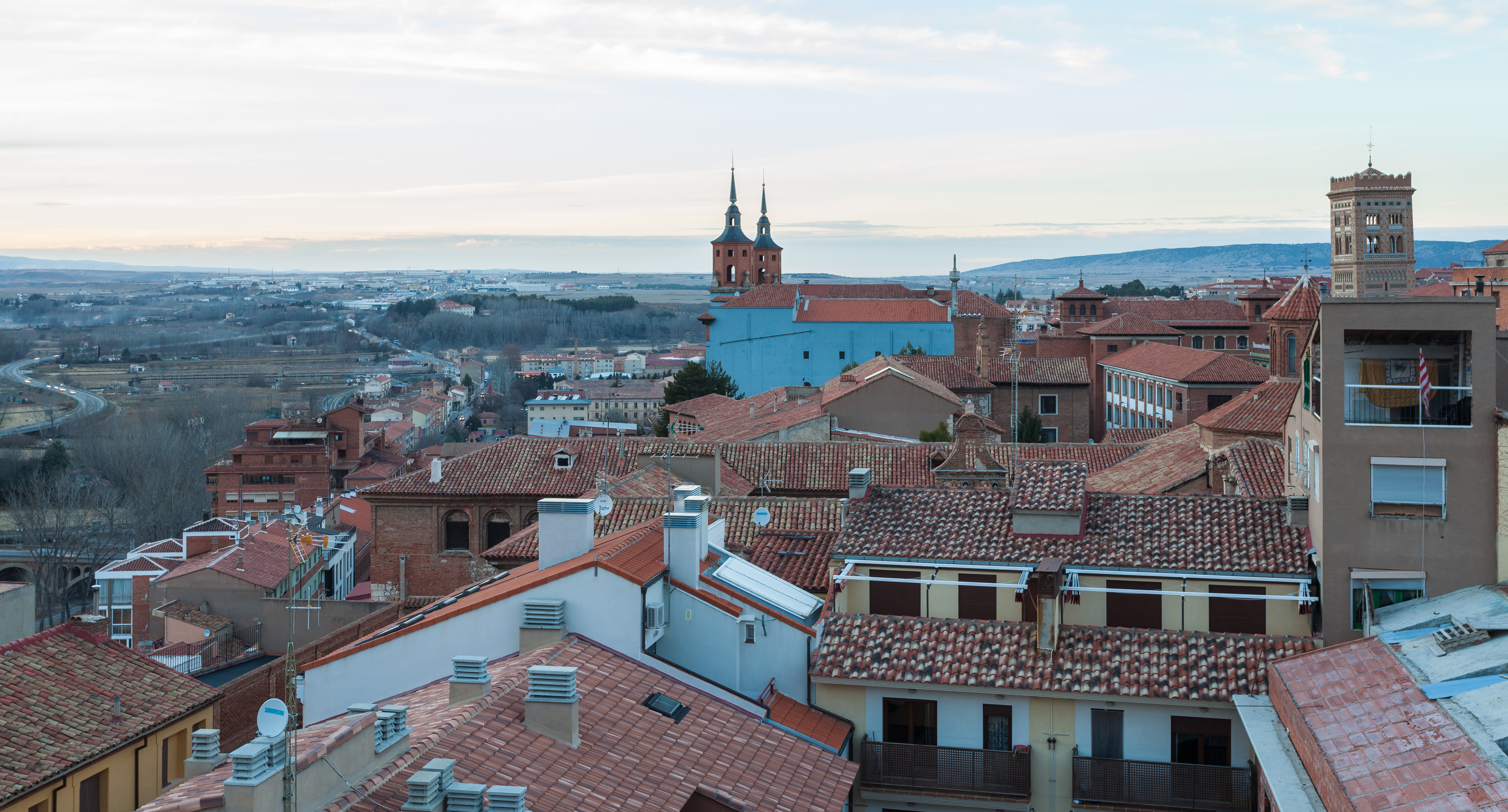 View of Teruel from the tower of the Church of Salvatore, Spain